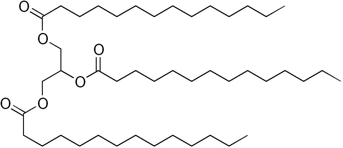 chemical structure of trimyristin